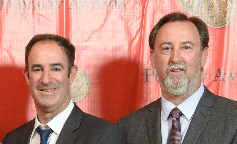 Steve Fainaru and Mark Fainaru-Wada at the 73rd Annual Peabody Awards for "FRONTLINE: League of Denial: The NFL's Concussion Crisis."